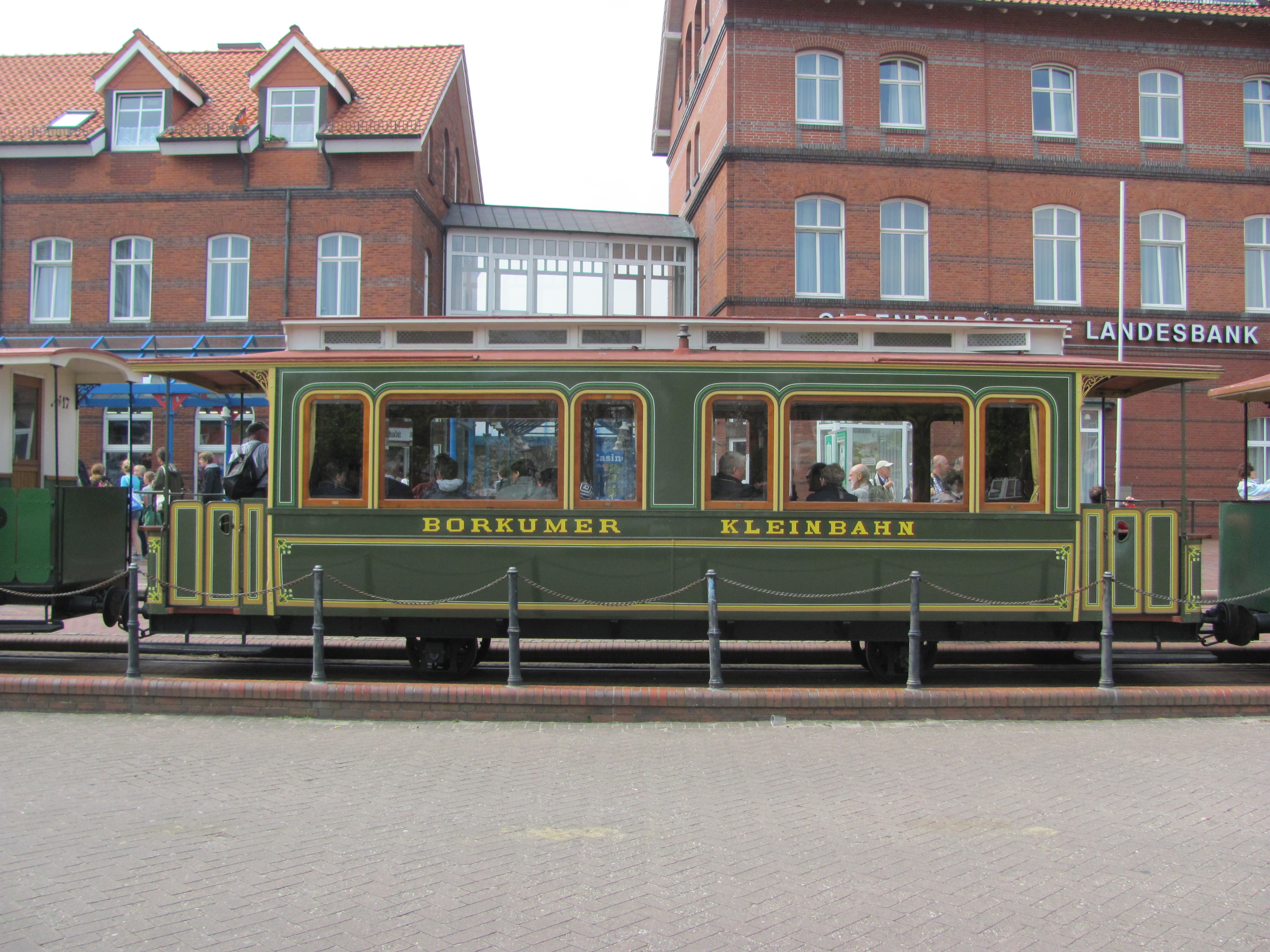 Saloon coach of BKB